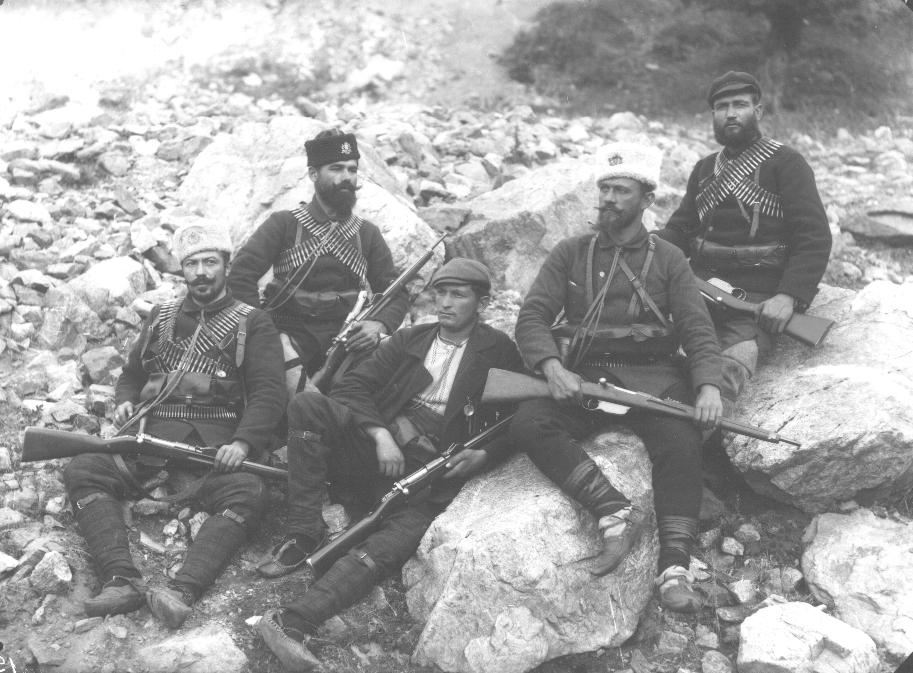 Mihail Ganchev, Sotir Atanasov, Bobi Stoychev, Anton Shipkov, Atanas Babata